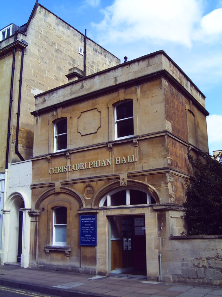 Christadelphian Hall in Bath/England